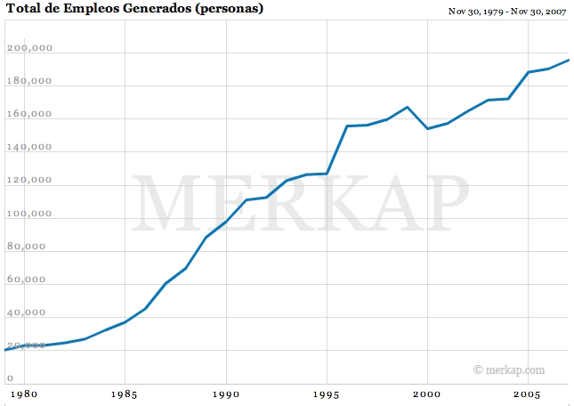 Total jobs generated by Tourism Industry in Dominican Republic